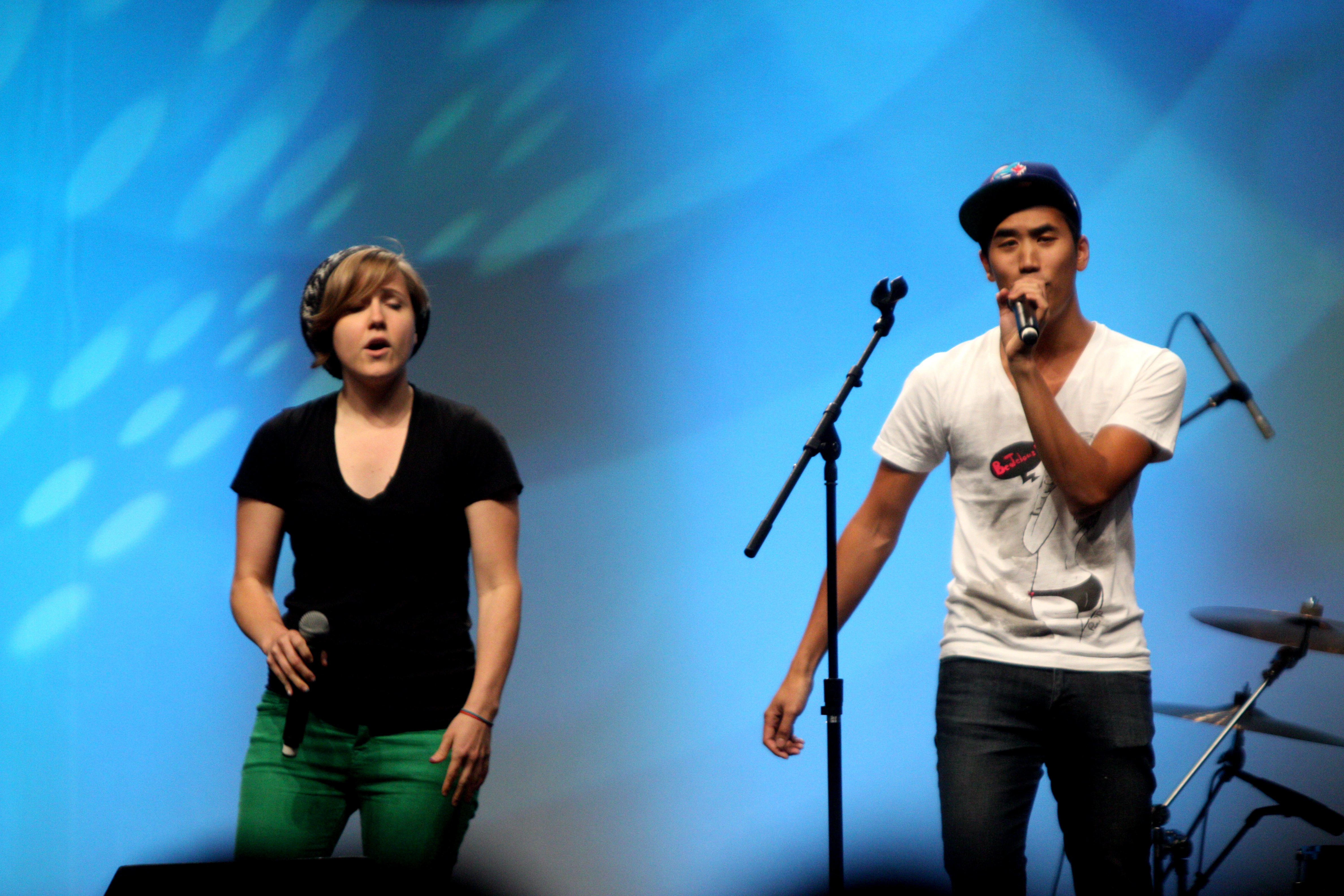 Hannah Hart & Andrew Huang performing at VidCon 2012 at the Anaheim Convention Center in Anaheim, California.